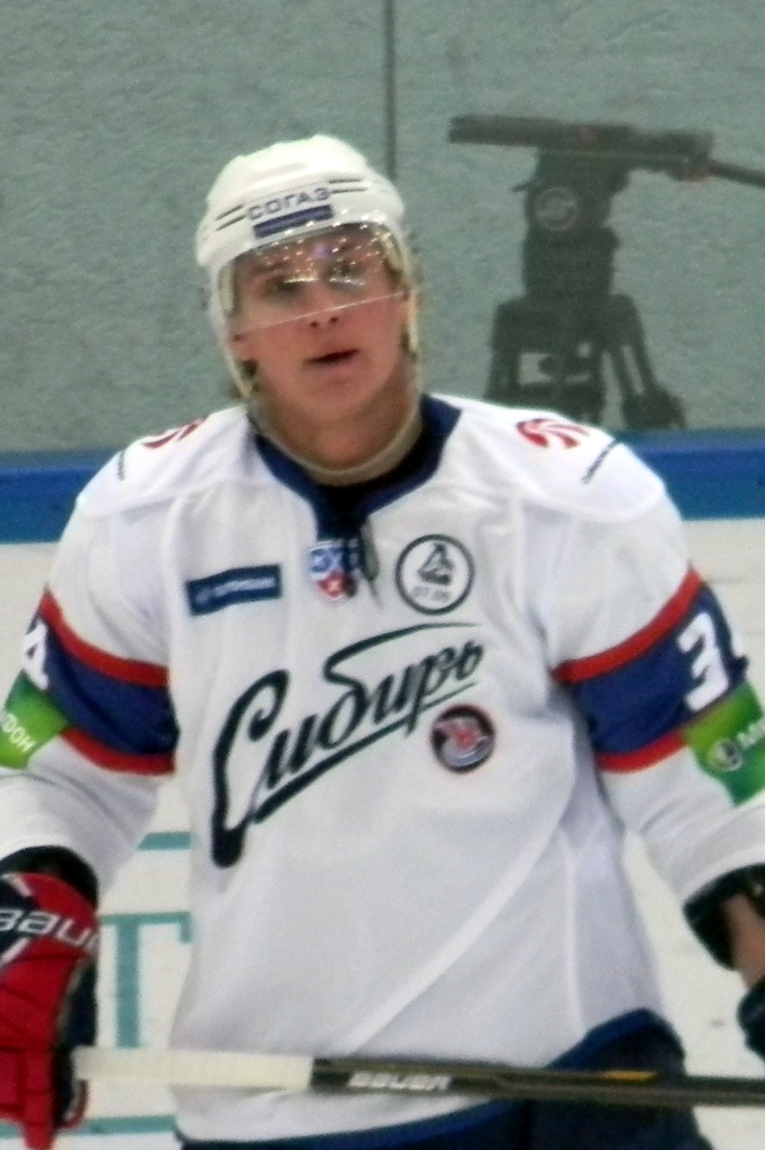 Artem Nosov, an ice-hockey player from HC Sibir Novosibirsk